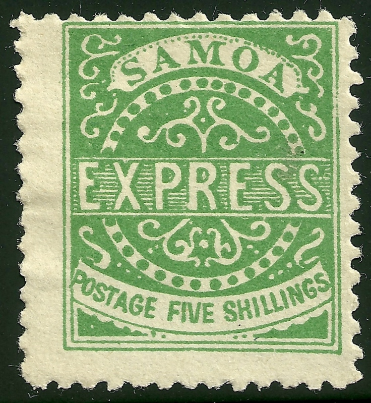 A believed forged 5 shilling Samoa Express stamp.